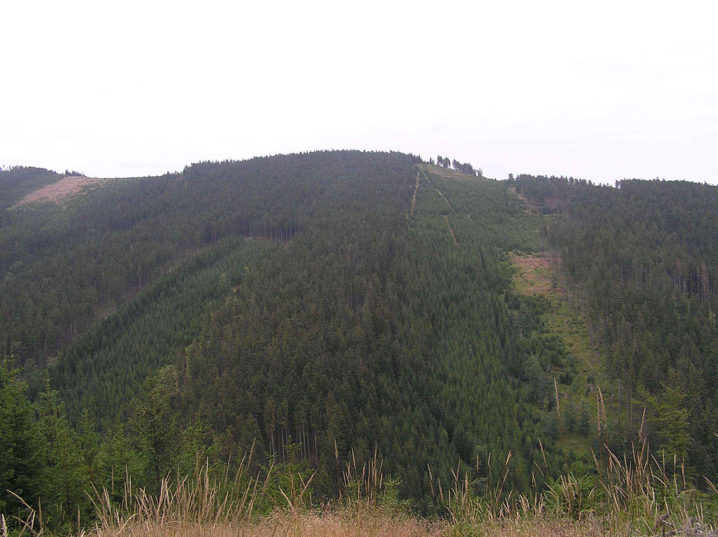 Chlum (1119 m), the mountain near the town Králíky, the Králický Sněžník Mountains, Czech Republic